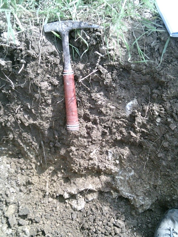 Mollic Calcaric Cambisol in Birki Ethiopia profile